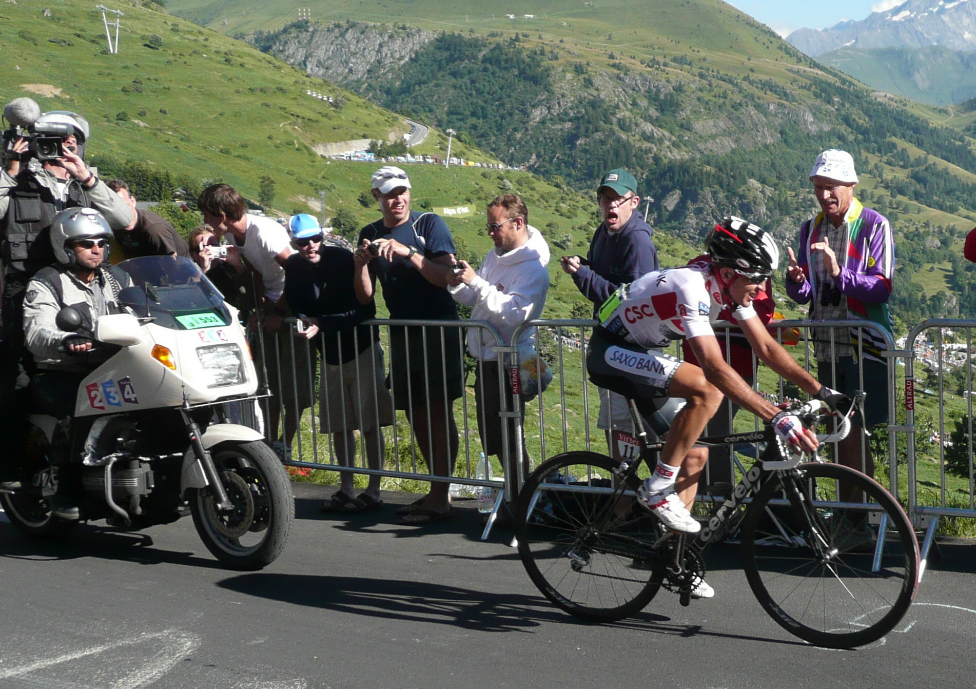 Carlos Sastre climbing up Alpe d'Huez at Tour de France 2008, winning the etape and getting the "Maillot jaune"